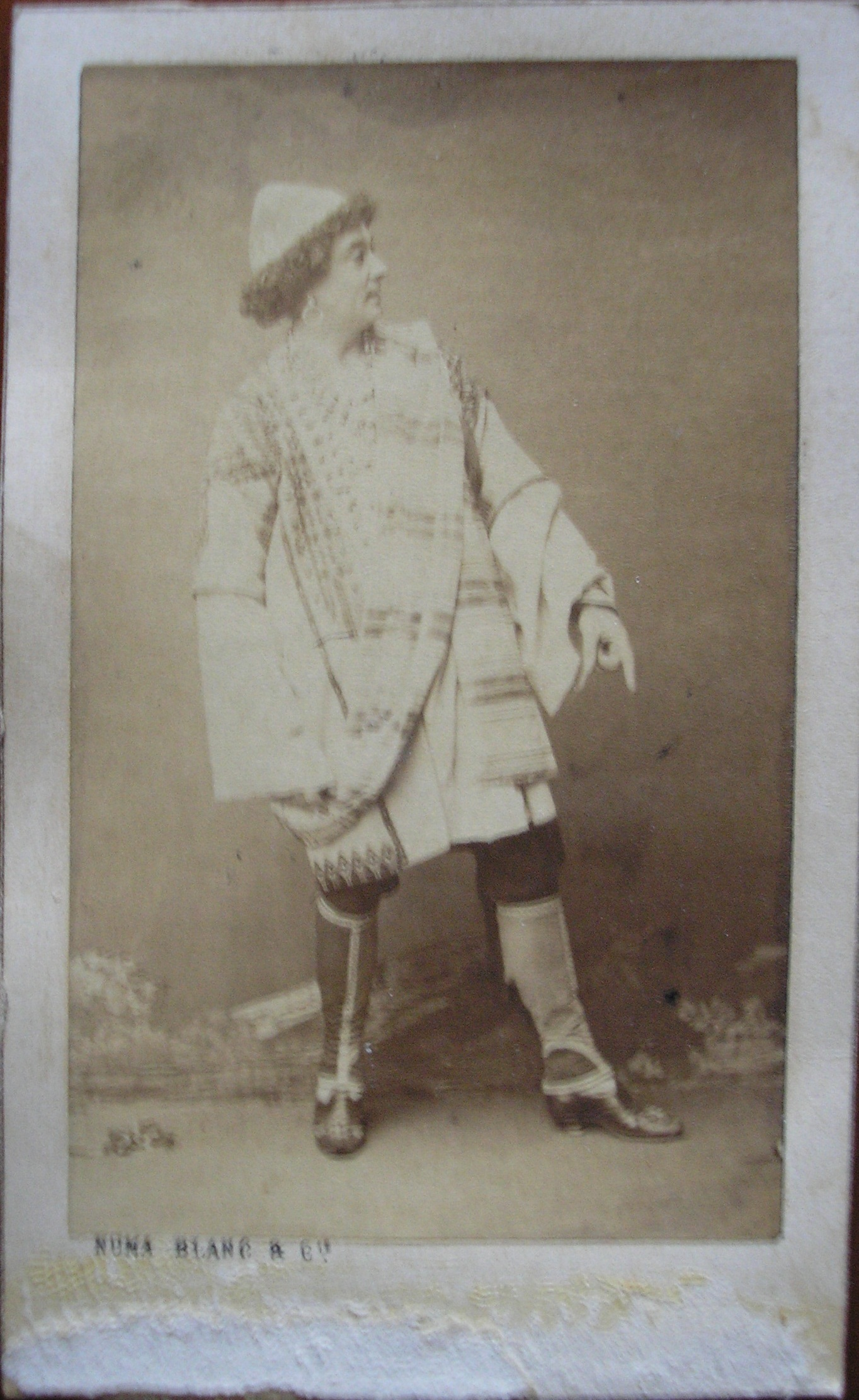 French operatic artist, Jean-Vital Jammes' friend, XIXth century